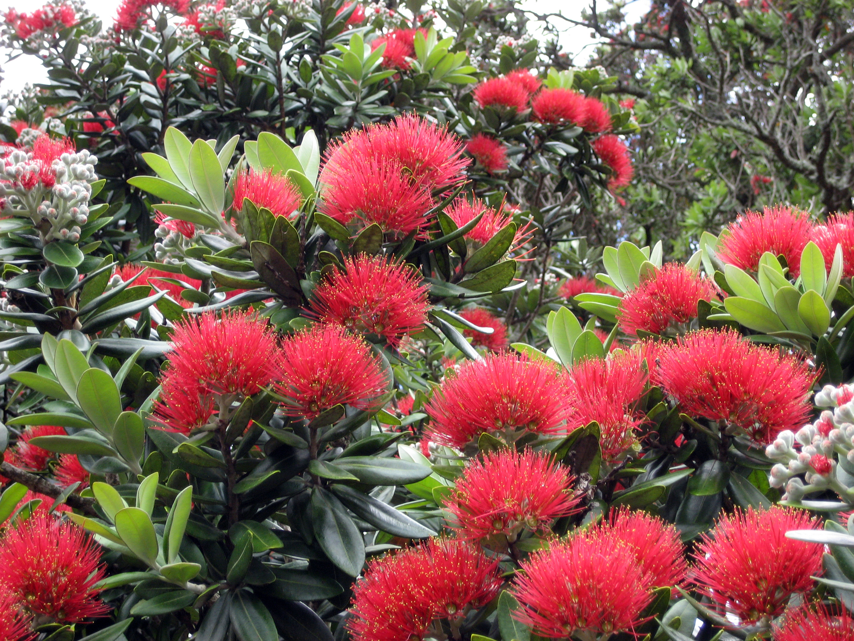 Pōhutukawa (Metrosideros excelsa), in flower, Point Chevalier, Auckland, New Zealand